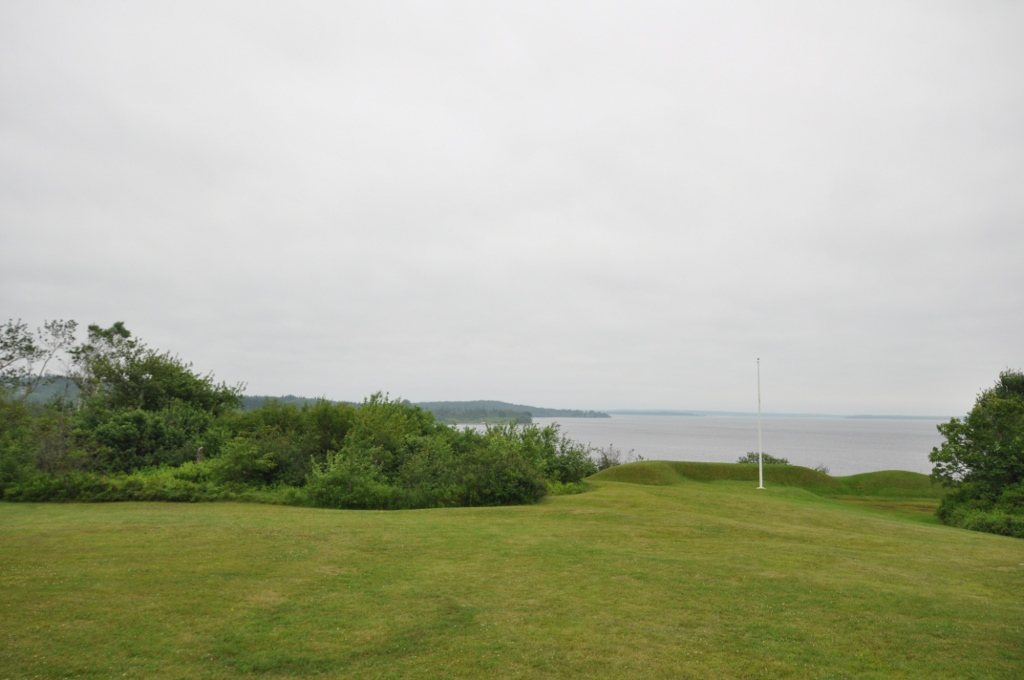 Fort O'Brien, Machiasport, Maine. View of the earthworks and the Machias River. The vegetation on the left is the location of Revolutionary-era earthworks, while the Civil War battery is on the right.